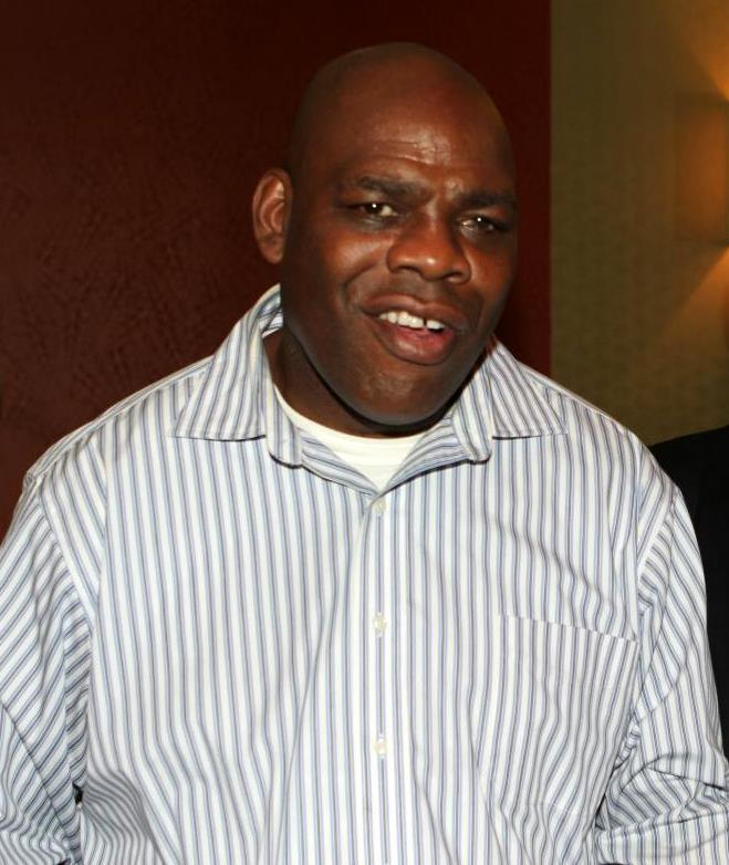 Iran Barkley during Theodore Atlas Foundation's 15th Annual Teddy Dinner at the Hilton Garden Inn in Staten Island, New York City.